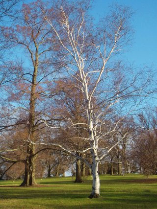 A birch tree, Betula species, at the Arnold Arboretum, Massachusetts.